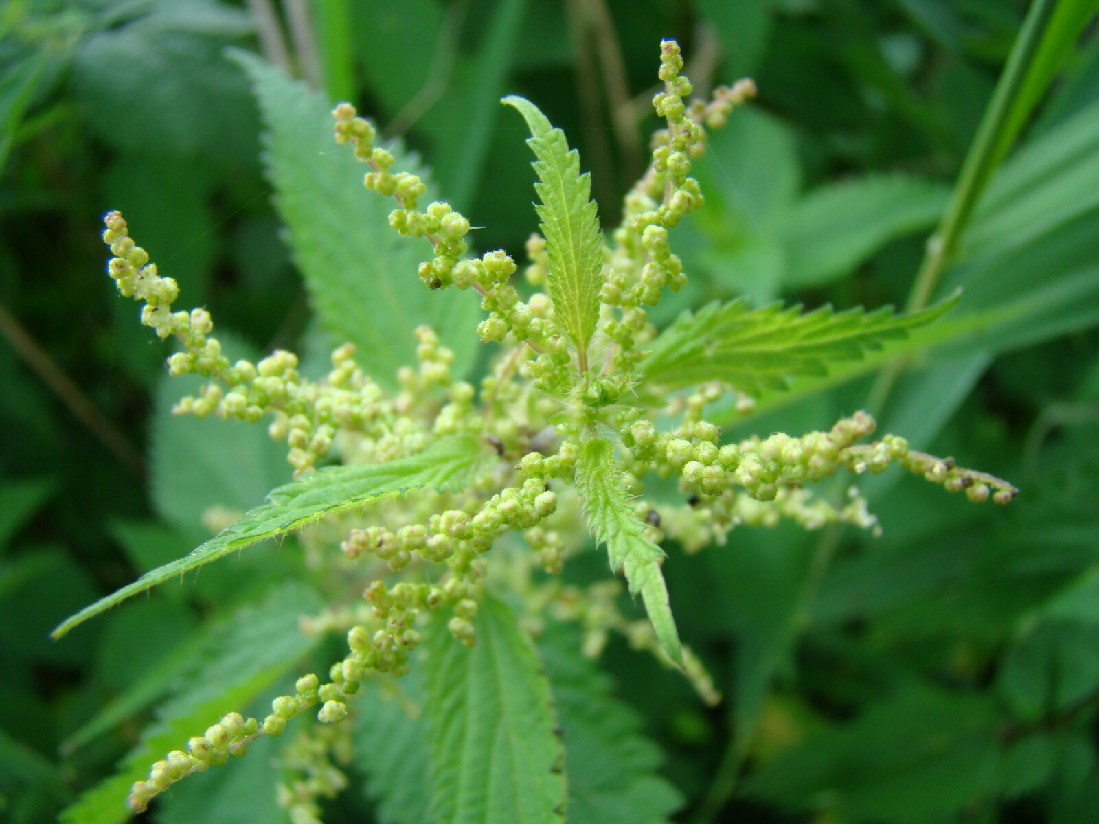 Stinging nettle-flowers